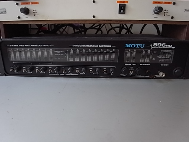 a motu 896 audio interface